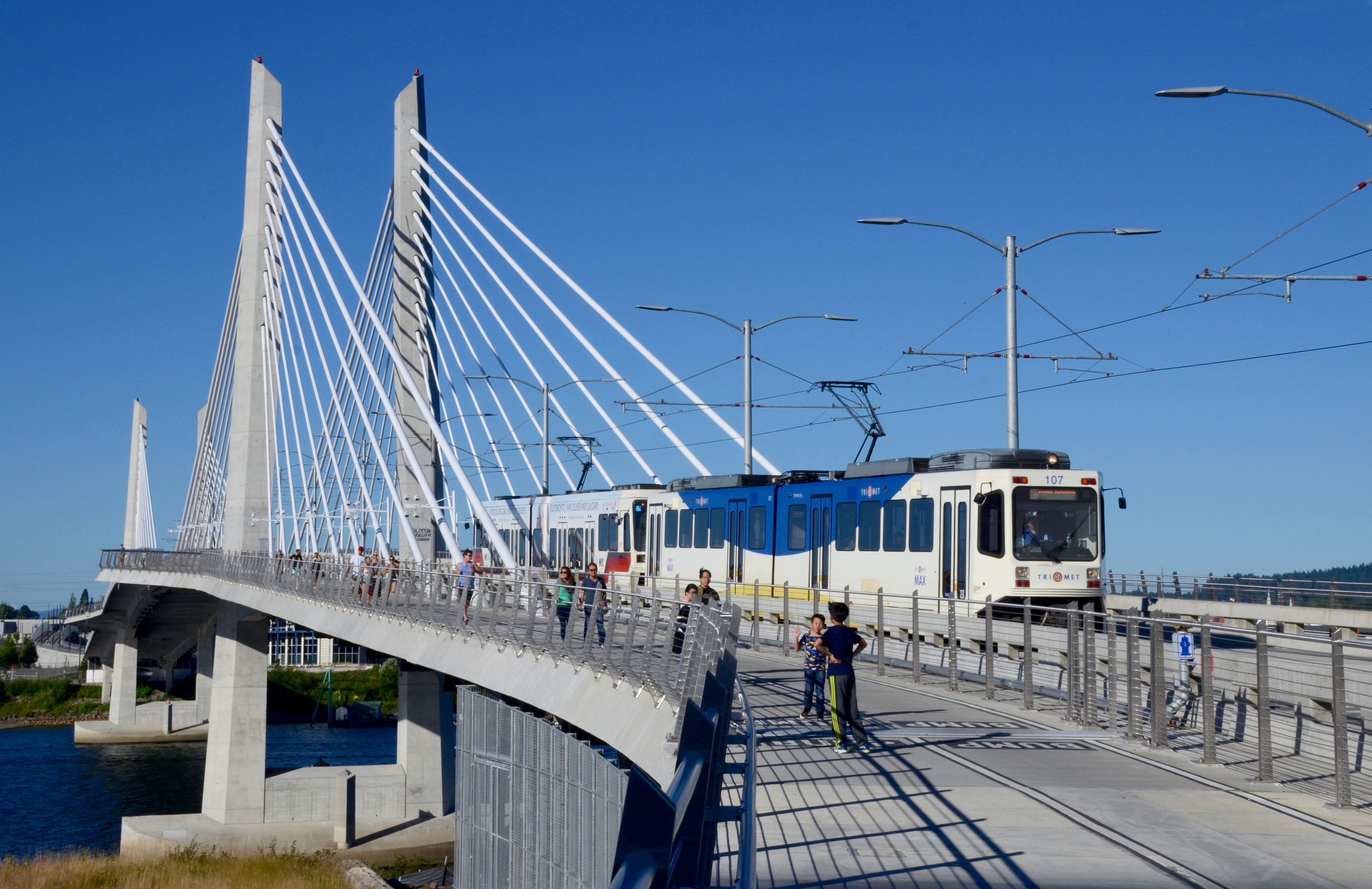 The Tilikum Crossing (in Portland, Oregon) from the north sidewalk, near the bridge's west end. A MAX light rail train is westbound, coming from Milwaukie on the MAX Orange Line. This train was composed of car 107 (high-floor car built by Bombardier, TriMet's Type 1) and car 208 (low-floor Siemens SD660, TriMet's Type 2).